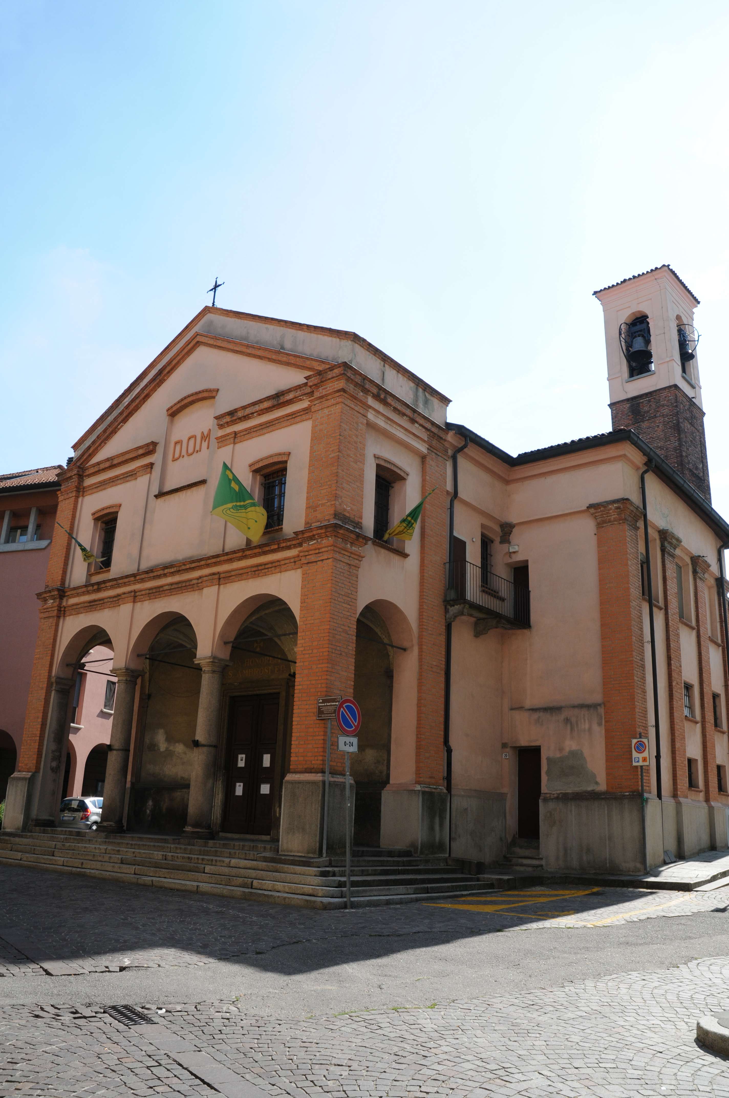 S. Ambrogio's Church in Legnano (Italy)